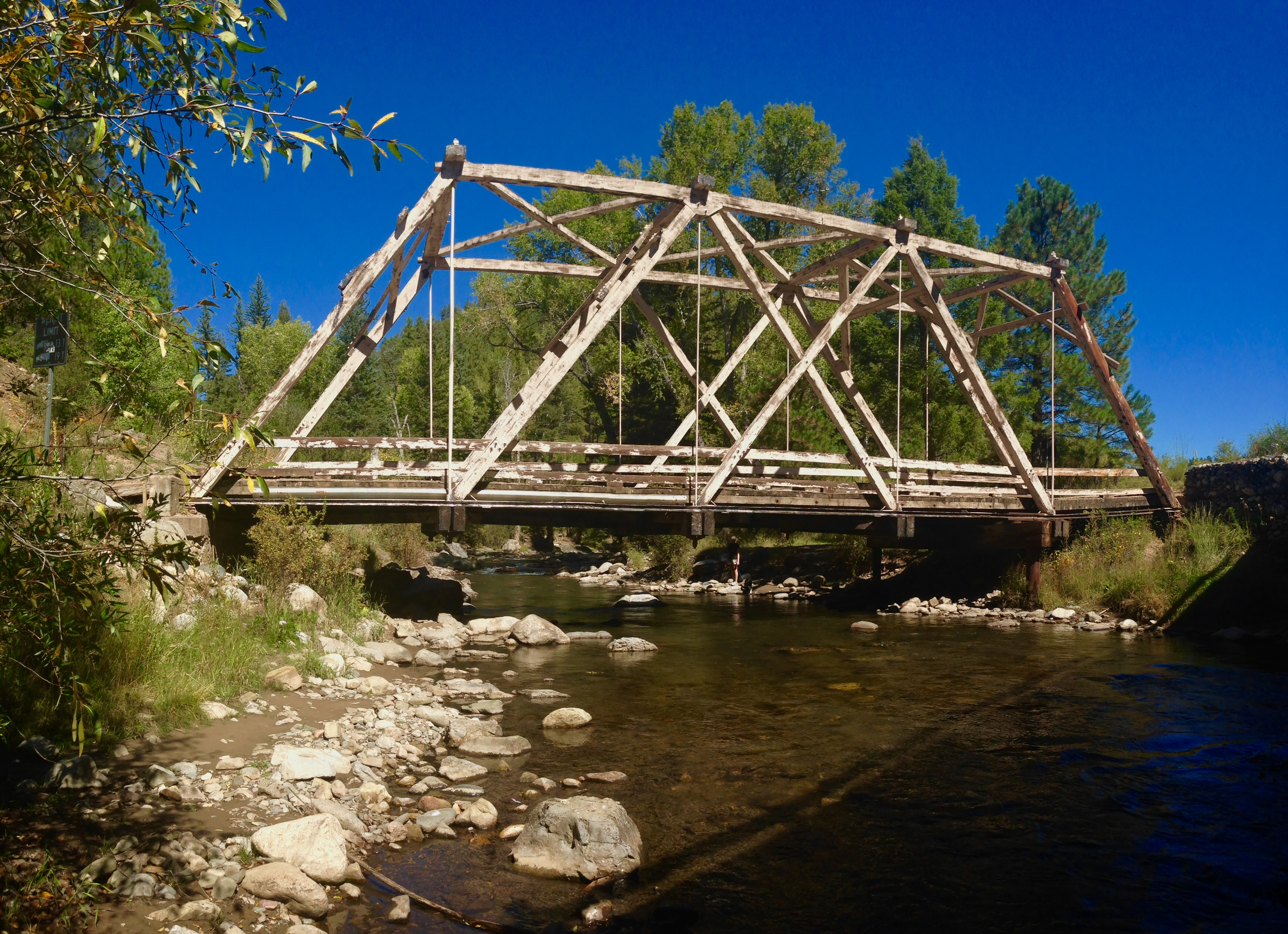 Pecos River Bridge at Terrero, State Road 63 over the Pecos River Terrero